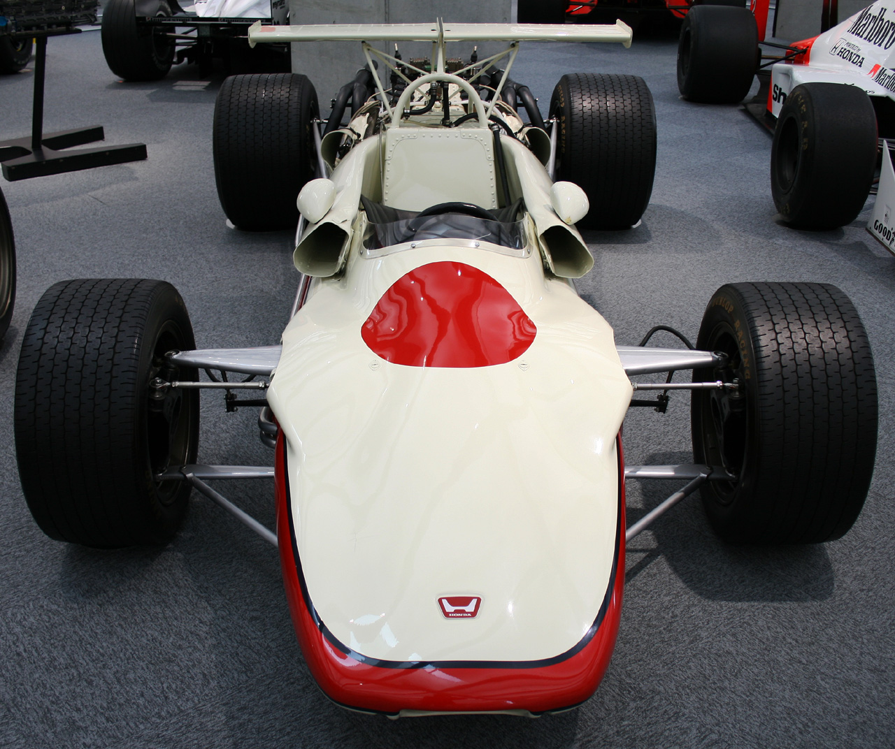 The Honda RA302